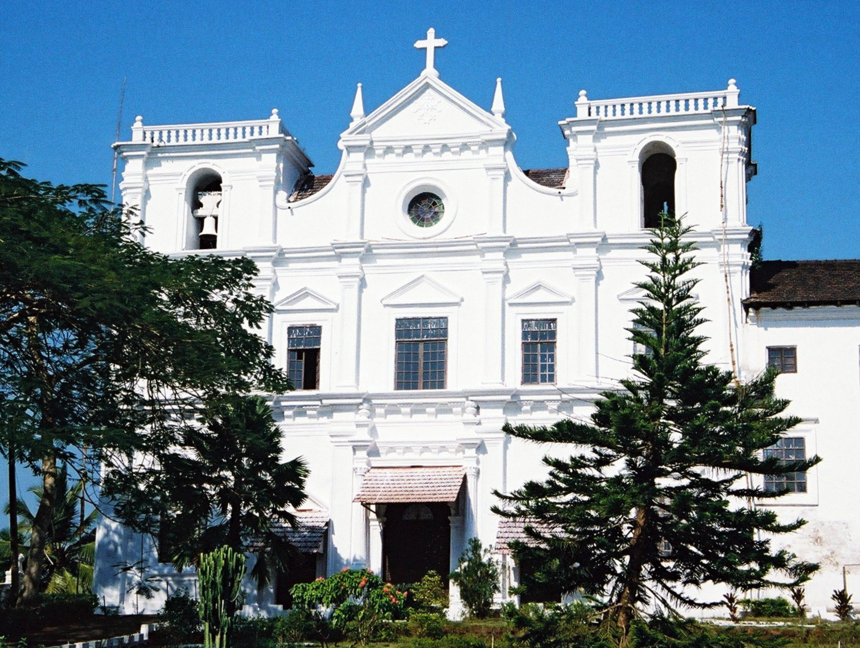 Rachol Seminary - Goa, established in 1521.